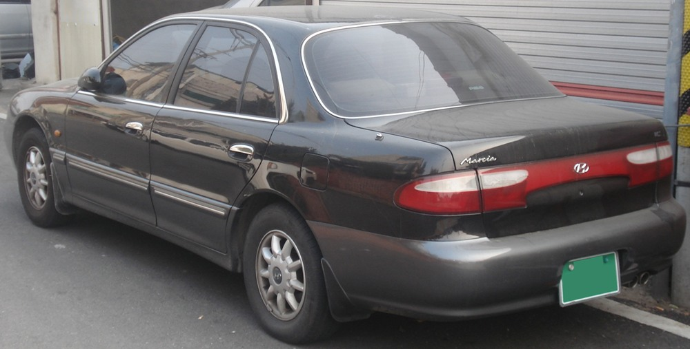 Hyundai Marcia